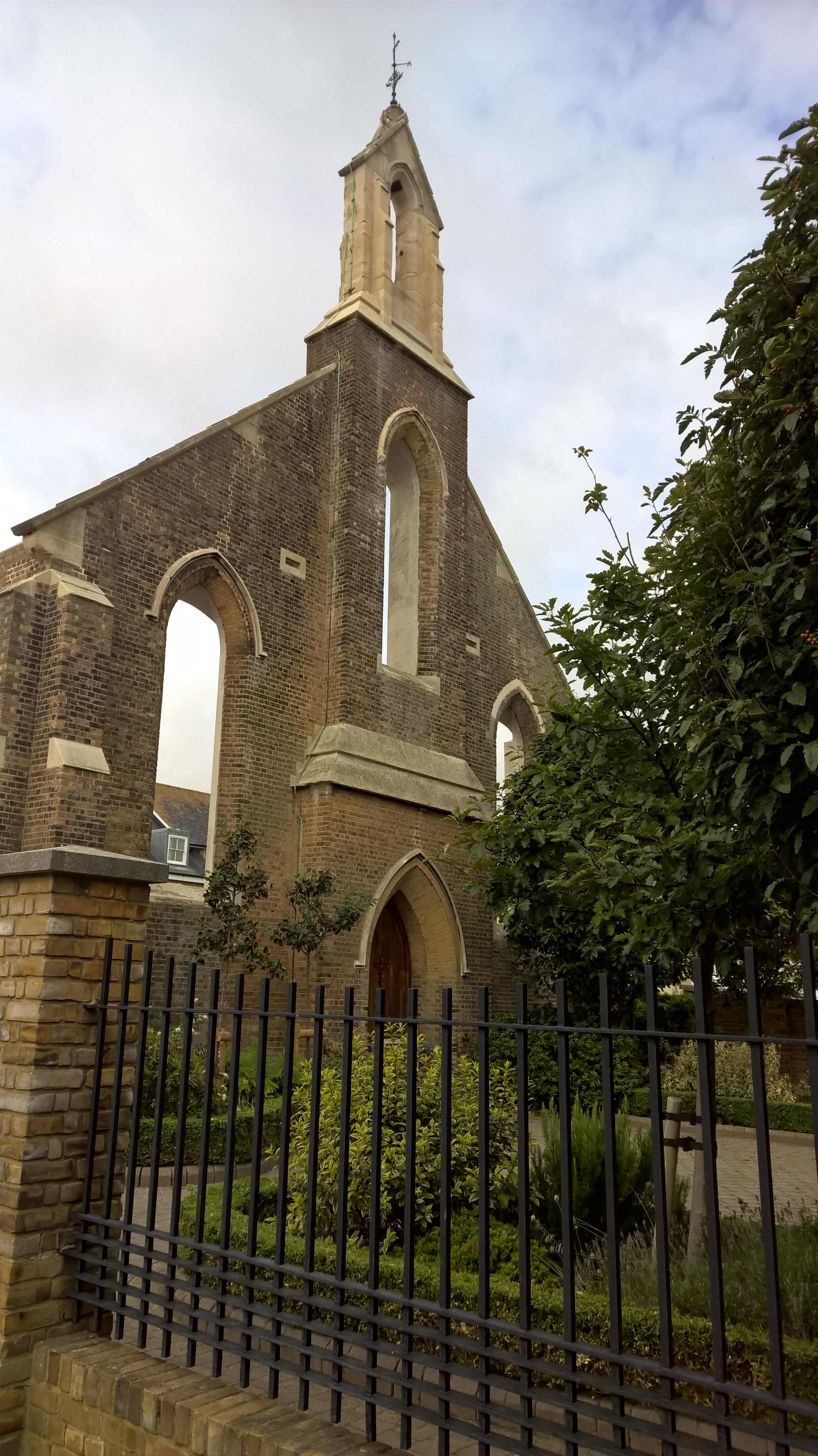 An IRA bomb was detonated nearby on 22 September 1989, killing 11 bandsmen of the Royal Marines School of Music. A memorial was dedicated here that same year. The former chapel/school (latterly concert hall) was destroyed in a fire in 2003.